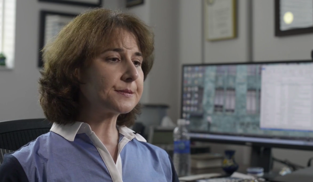 Using Computers to Create New Materials by Benefunder on Vimeo about Susan Buthaina Sinnott the Professor and Head of Materials Science and Engineering at Pennsylvania State University.